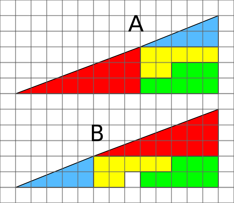 add "A" and "B" letters to cite triangles